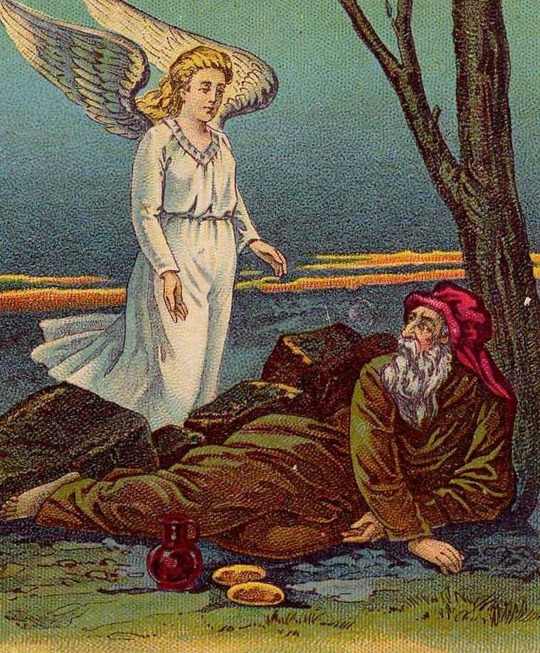 Elijah and the Angel; as in 1 Kings 19:1-16.